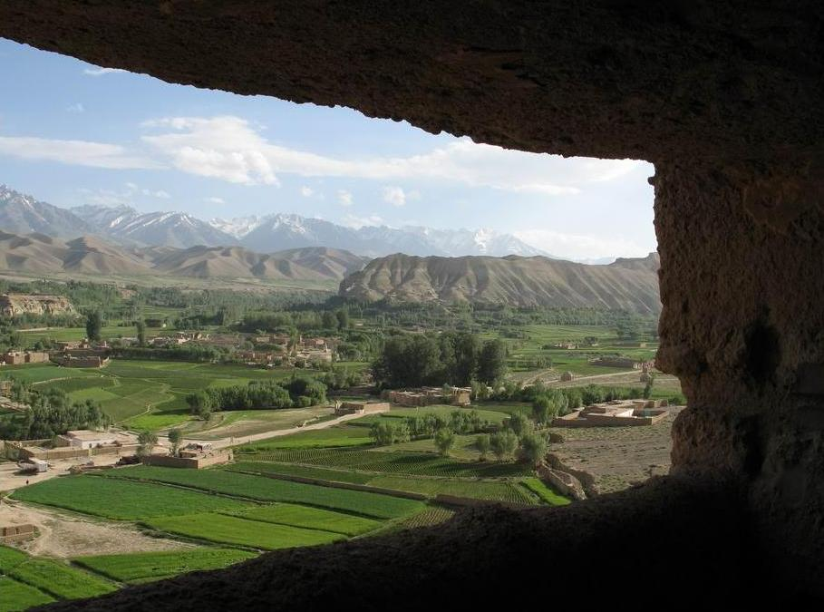 A View of Bamyan Valley Near the Big Budha Statue